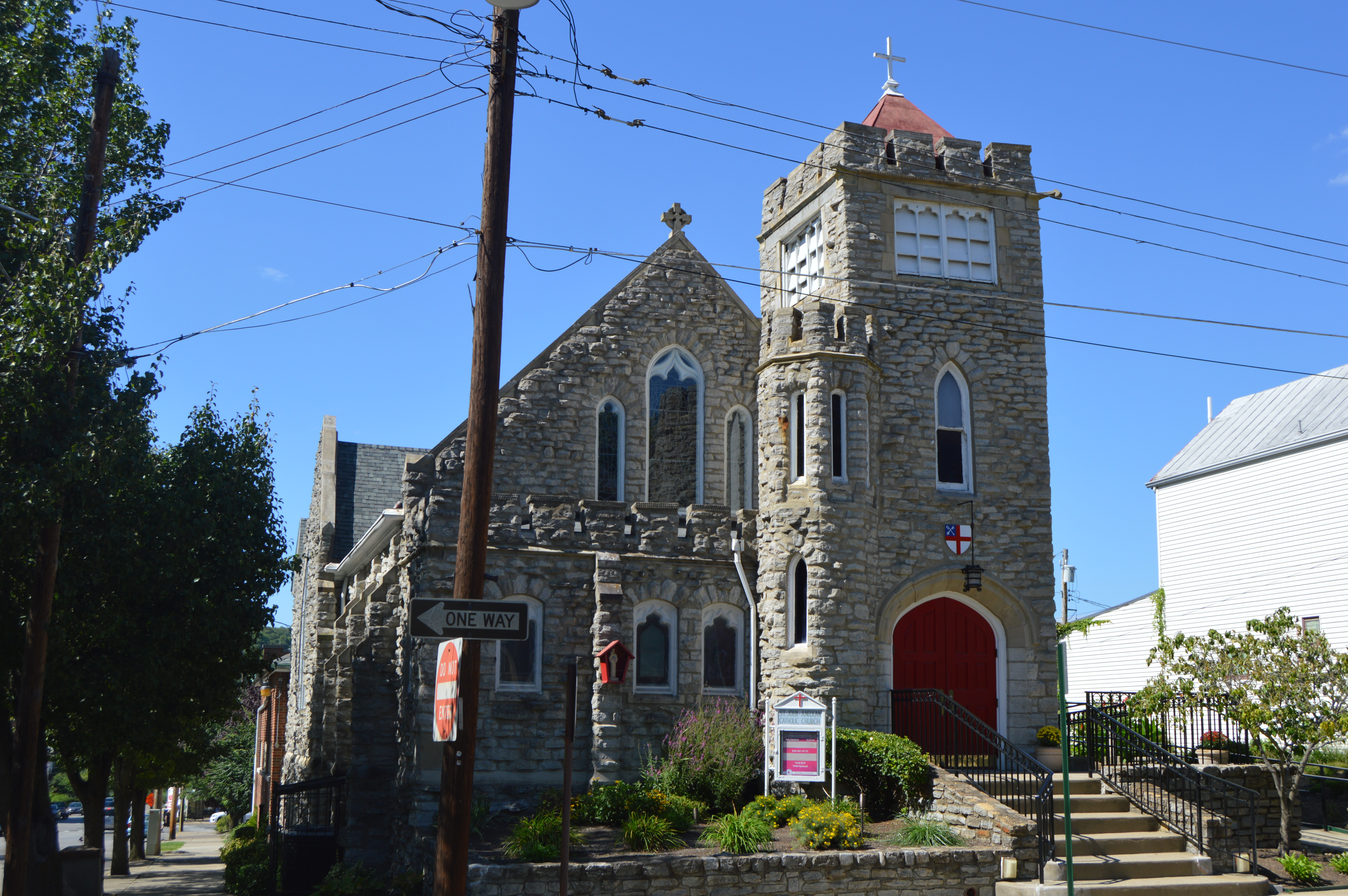 Front and western side of St. John's Anglican Catholic Church, located at 619 O'Fallon Avenue in Dayton, Kentucky, United States. It was built in 1899.